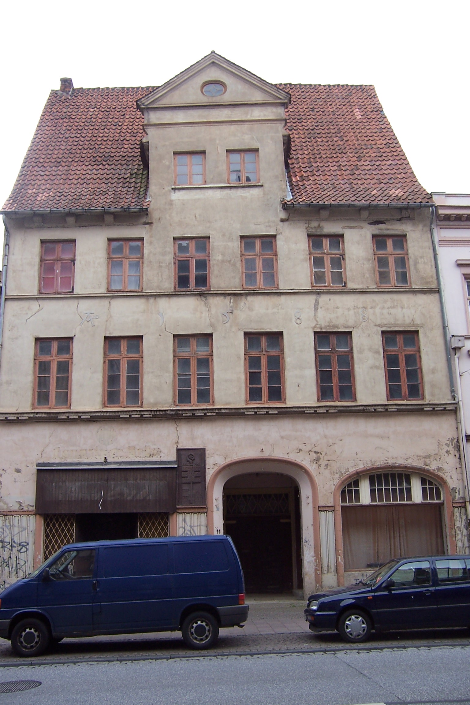 the Bischofsherberge (city house of the bishop and chapter of Ratzeburg) in the Grosse Burgstrasse, Lübeck